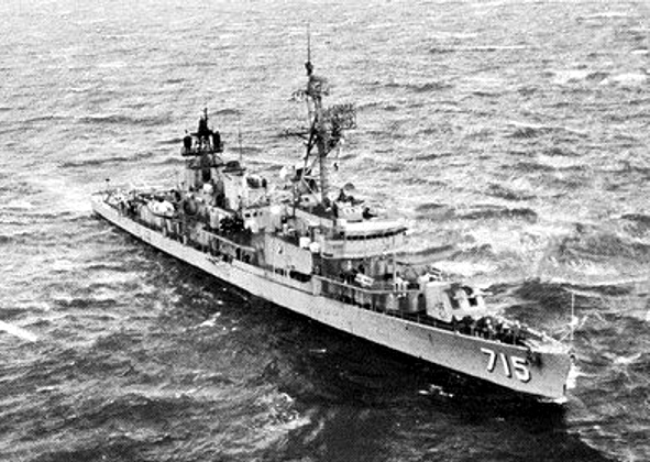 The U.S. Navy destroyer USS William M. Wood (DD-715) at sea in 1971. The destroyer was assigned to the screen of the aircraft carrier USS Franklin D. Roosevelt (CVA-42) which was deployed to the Mediterranean Sea from 29 January to 28 July 1971.